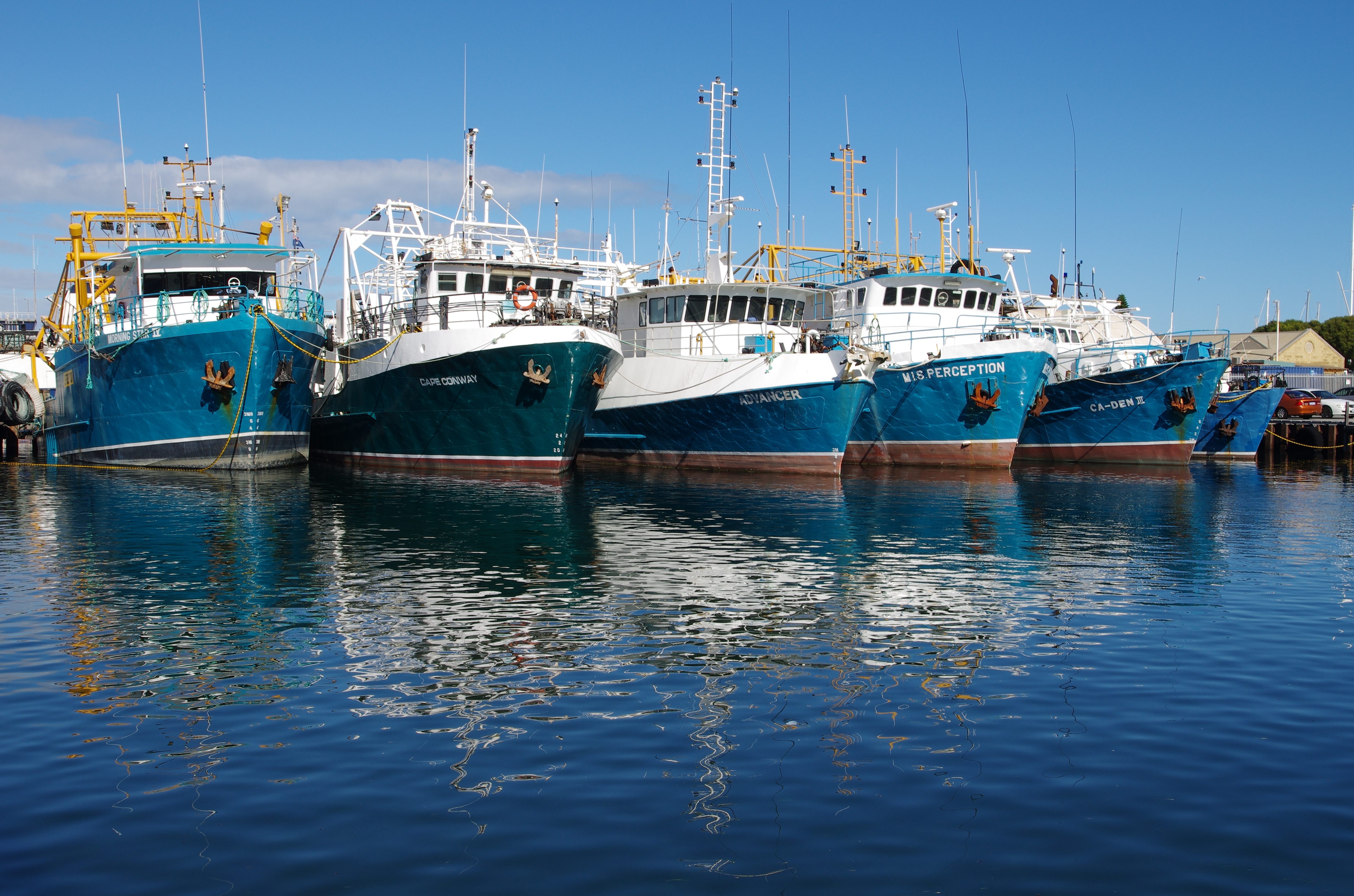 Fishing boats tied up in the Fremantle Fishing Boat Harbour